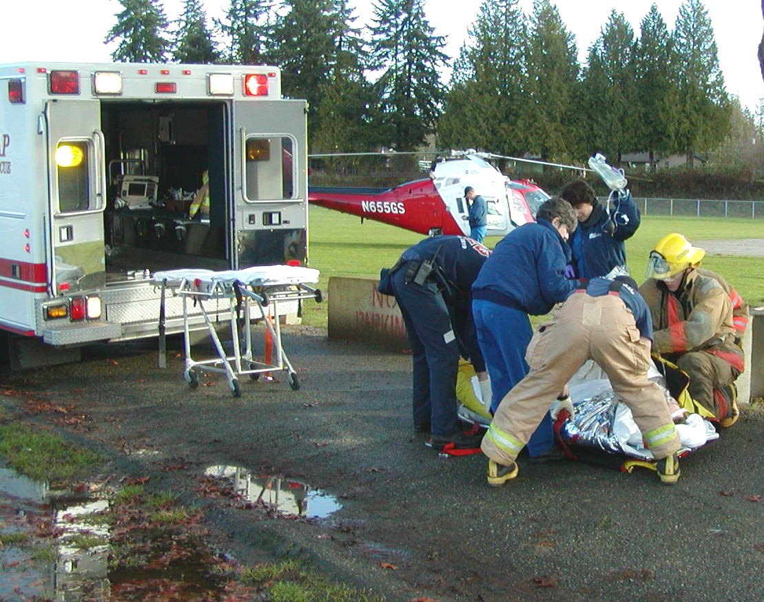 Crews from Airlift Northwest and local fire departments prepare to load a patient into a helicopter for transport from Poulsbo, Washington's Raab Park to the regional trauma hospital at Harborview Medical Center on December 26, 2006.